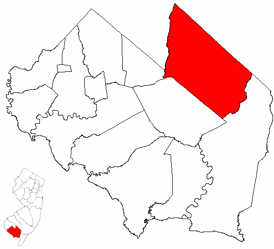 Map of Cumberland County highlighting Vineland